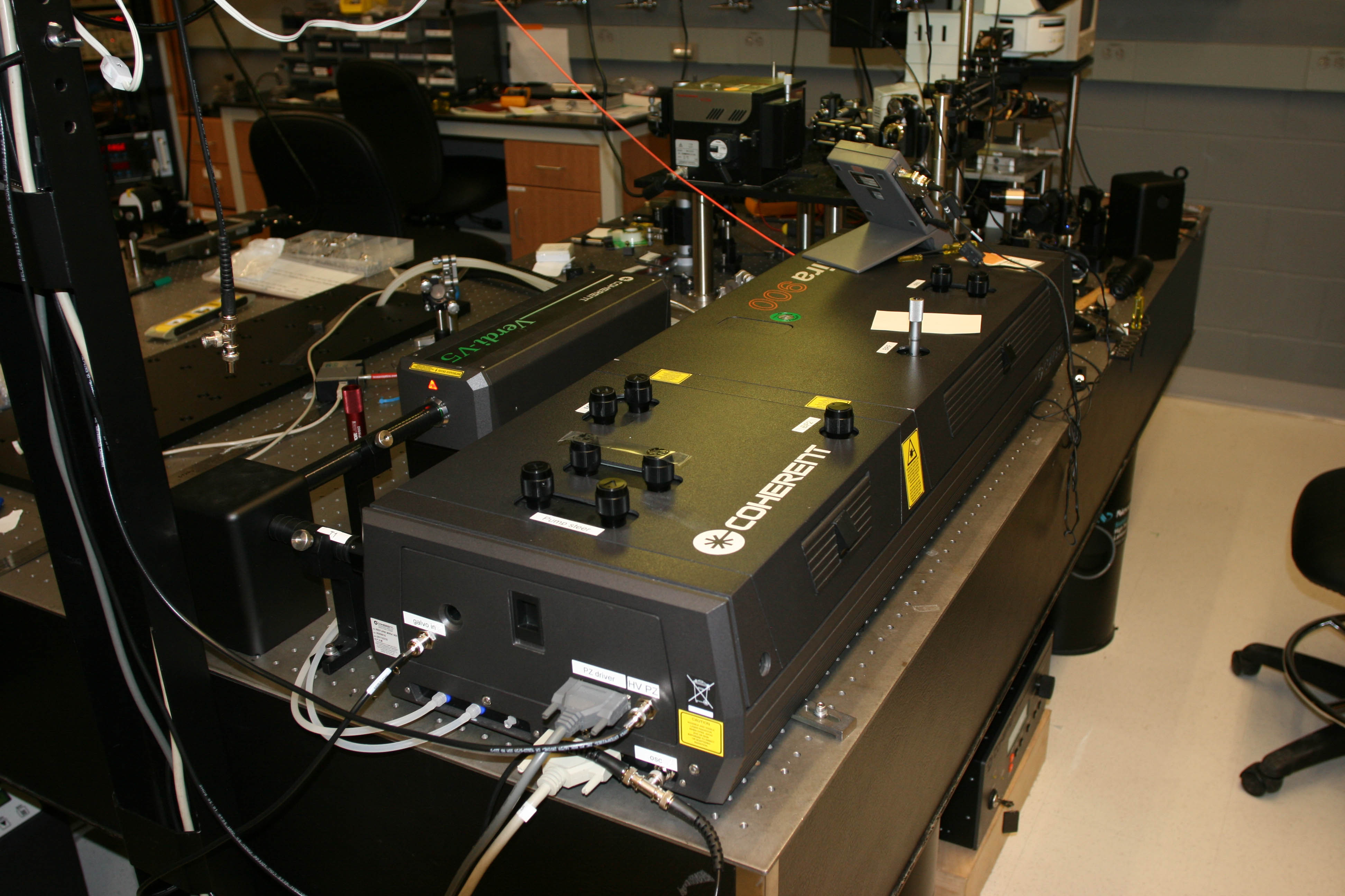 Femtosecond Pulse Laser at Cornell University College of Engineering - New Physical Sciences Building